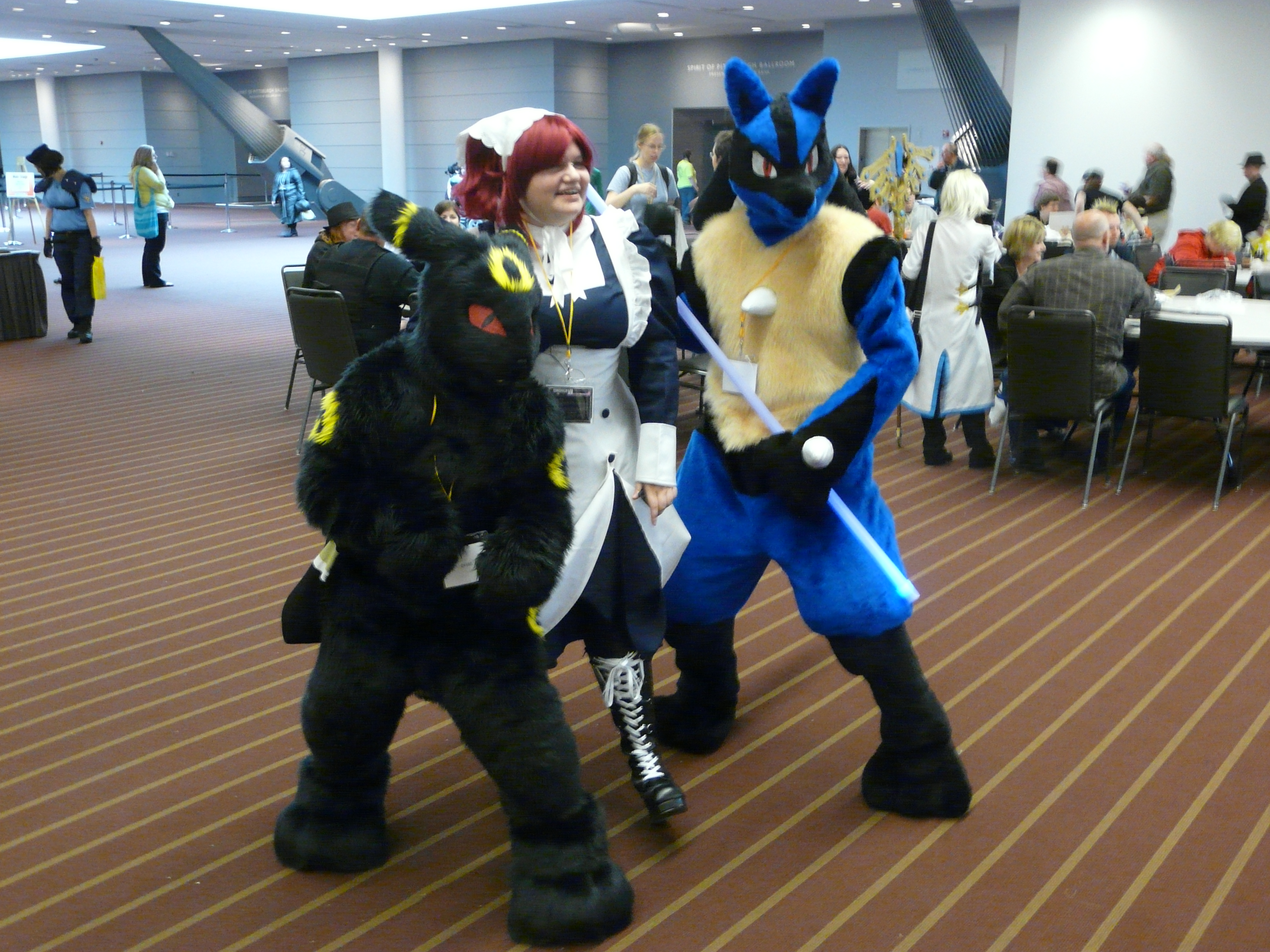 Tekkoshocon at David L. Lawrence Convention Center (2010). Cosplay of Pokémon creatures Umbreon and Lucario (?)